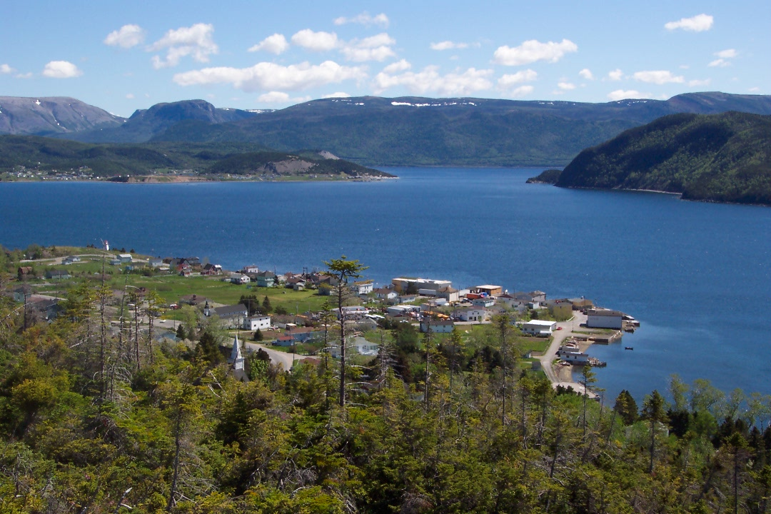 Woody Point, Newfoundland, from a lookout place